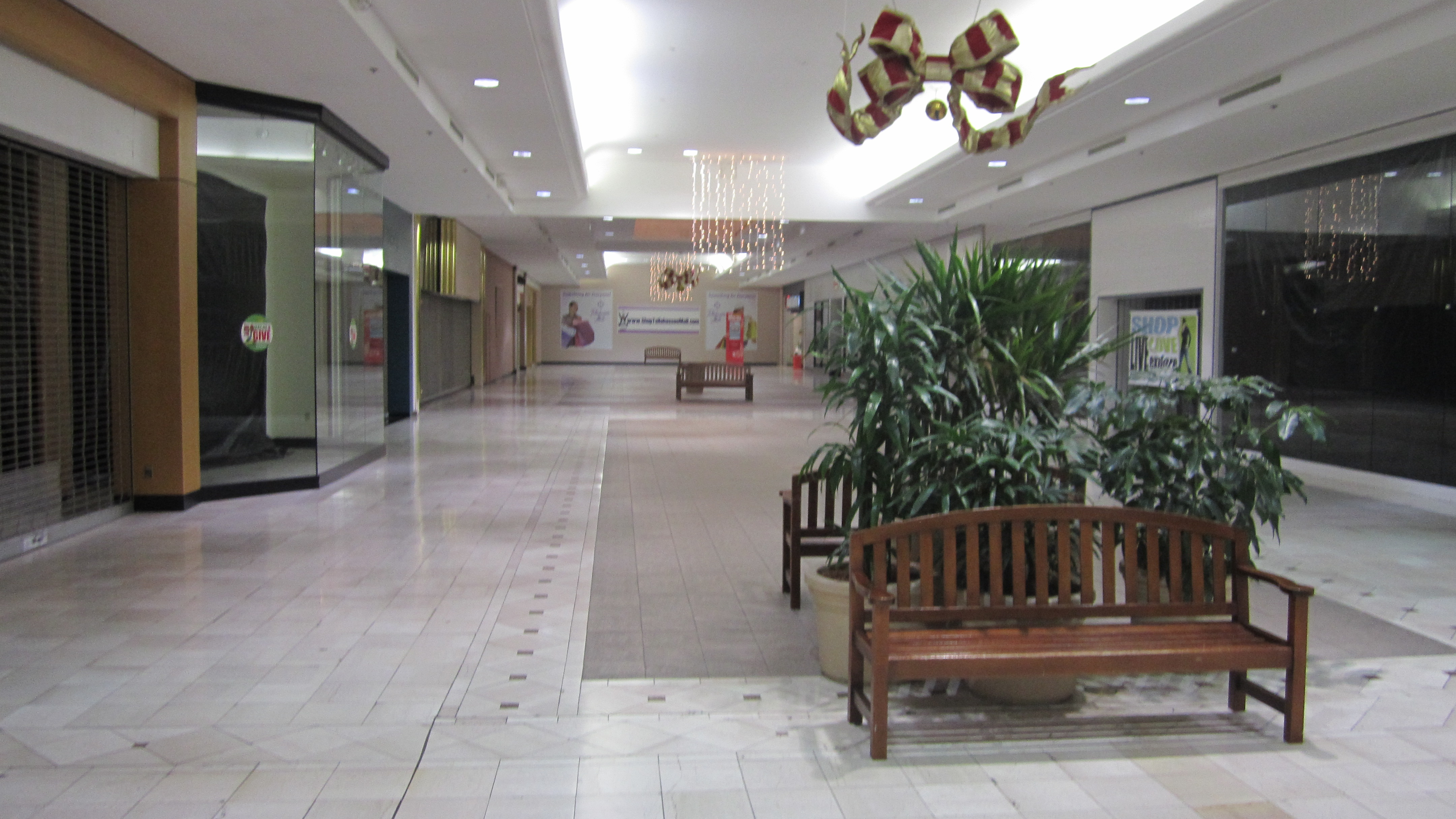 Made by GatorSlayerFSU (talk) 03:39, 7 January 2011 (UTC)